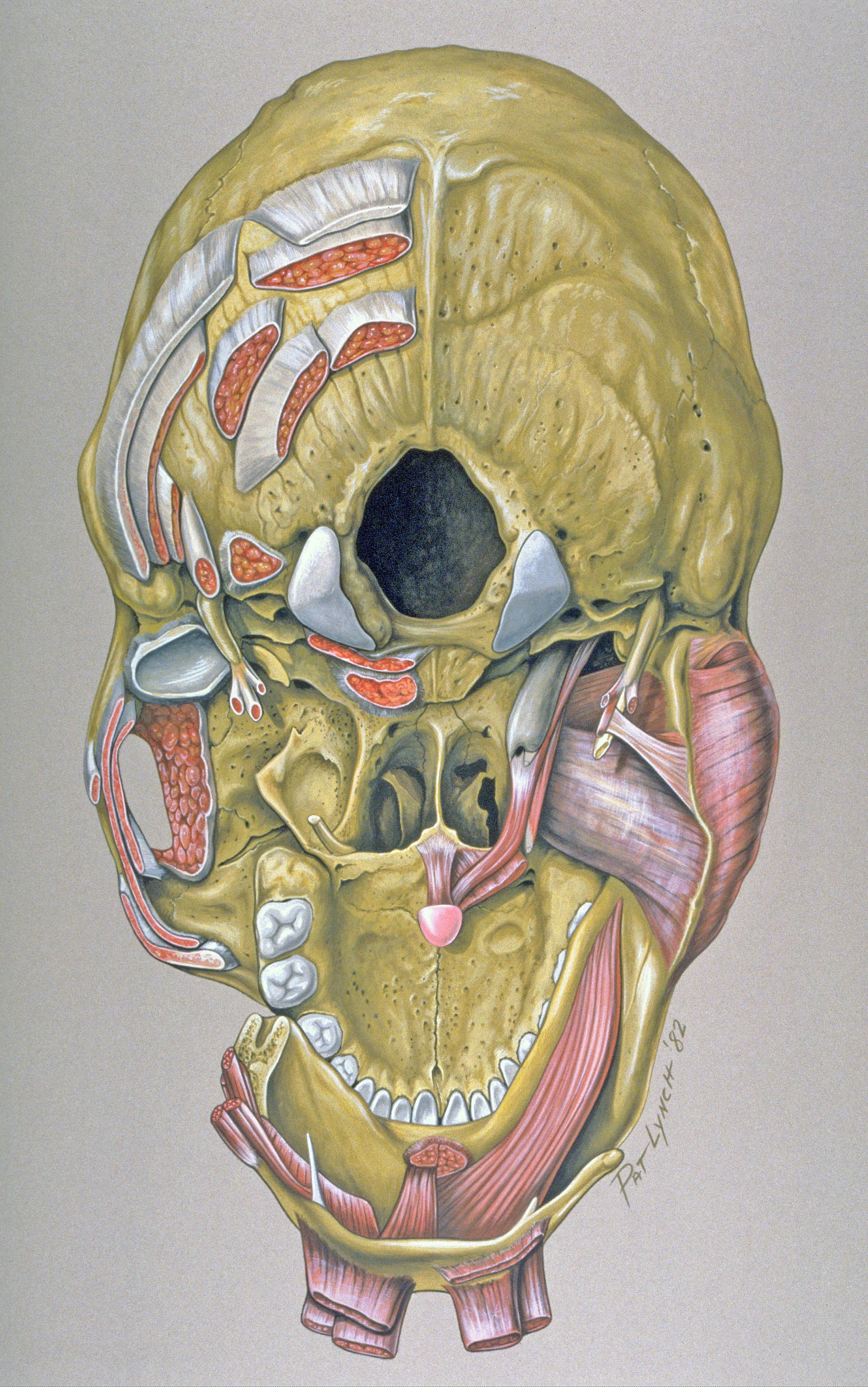 Skull base anatomic illustration